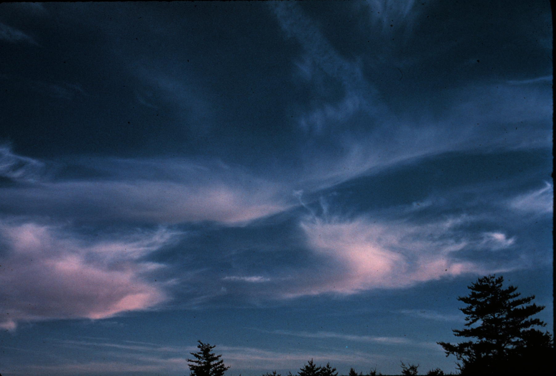 Cirrus spissatus intortus clouds (center) with some Cirrus fibratus (bottom) Image ID: wea00065, Historic NWS Collection